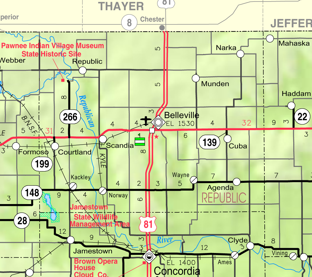 This map of Republic County, Kansas, USA, is copied at a resolution of 300 pixels/inch from the original PDF file.